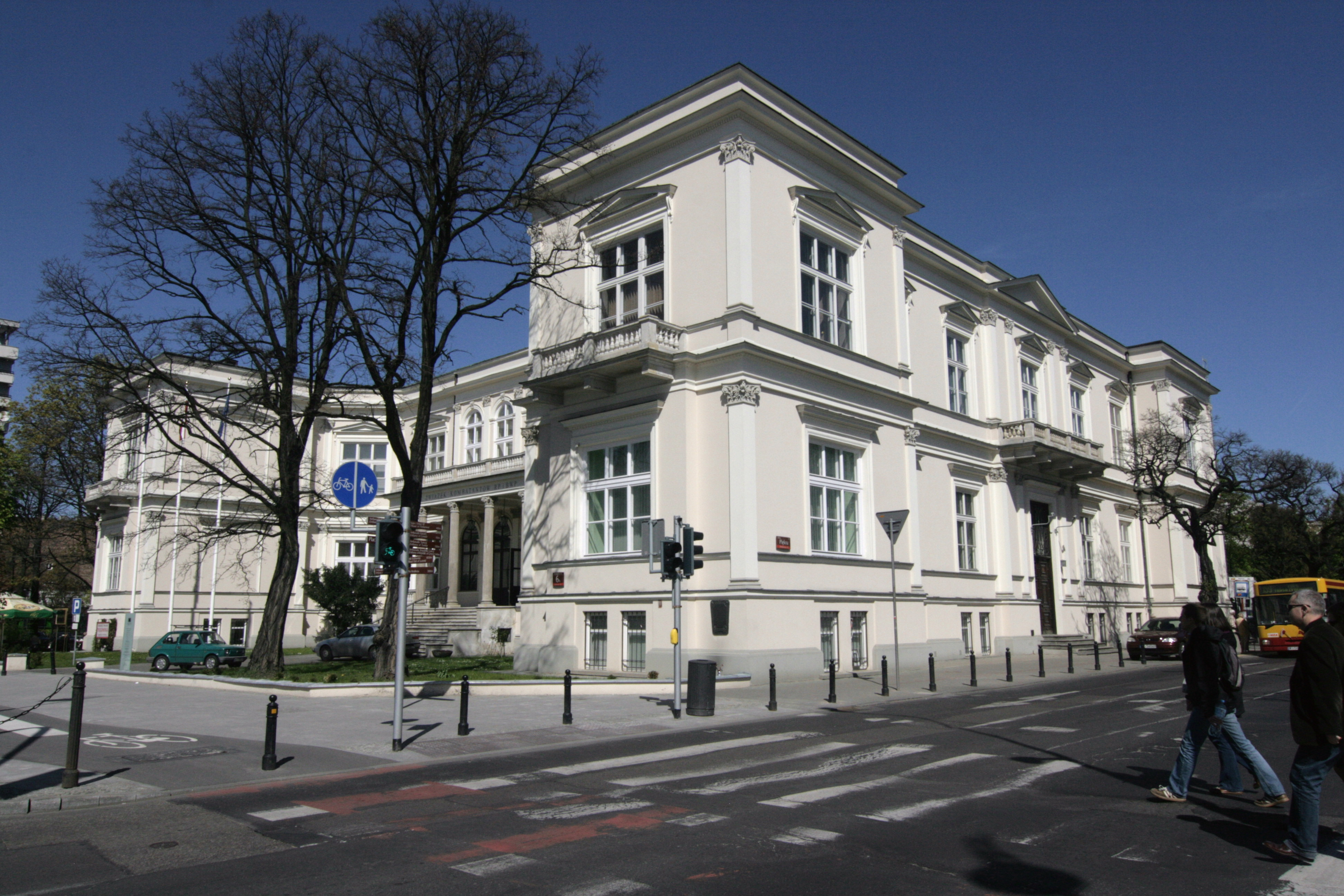 Rembielinski's Palace - Headquarters of Polish Society of War Veterans at Aleje Ujazdowskie 6a in Warsaw